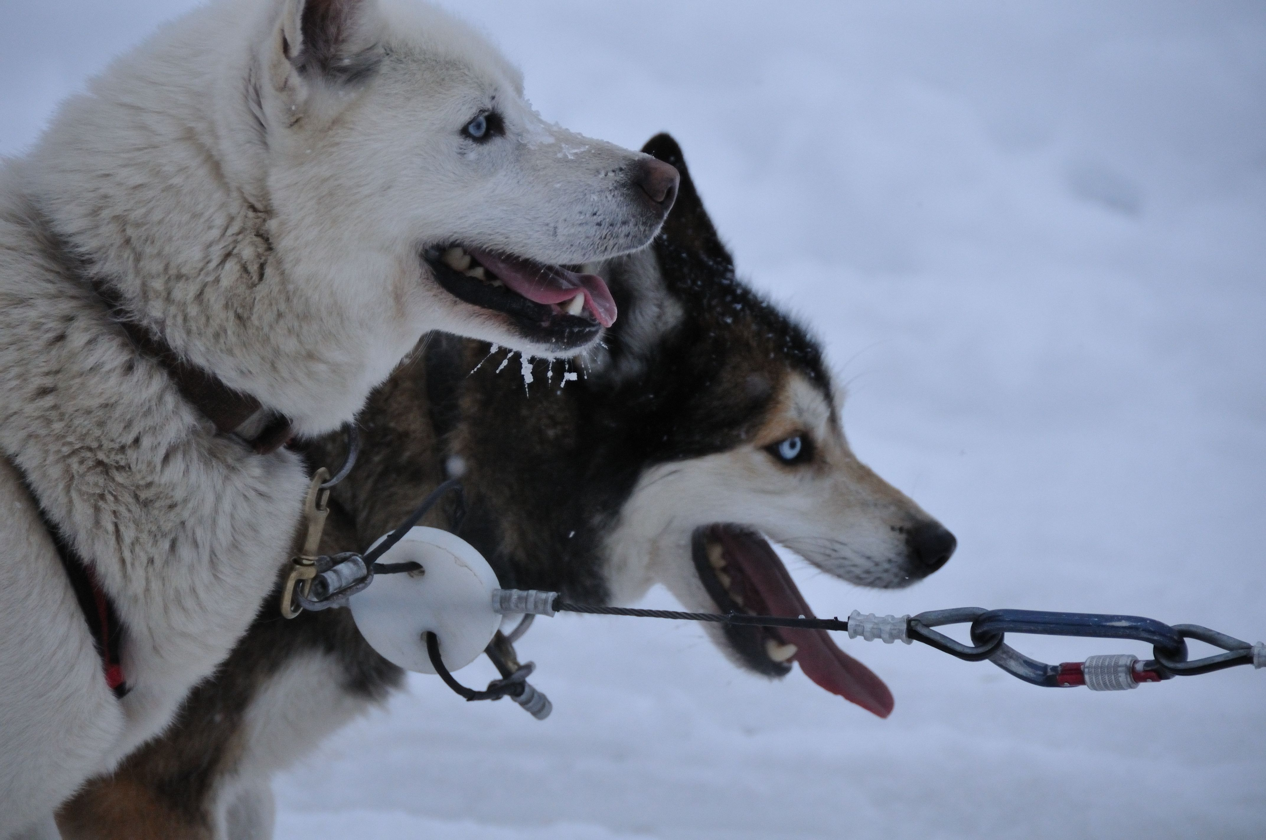 Dogsled dogs (huskies) at rest. At the Governor General's residence, winter party, Ottawa, Canada.